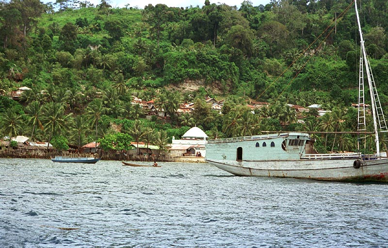 The island of Run was once traded for Manhattan it was a valuable source of spice